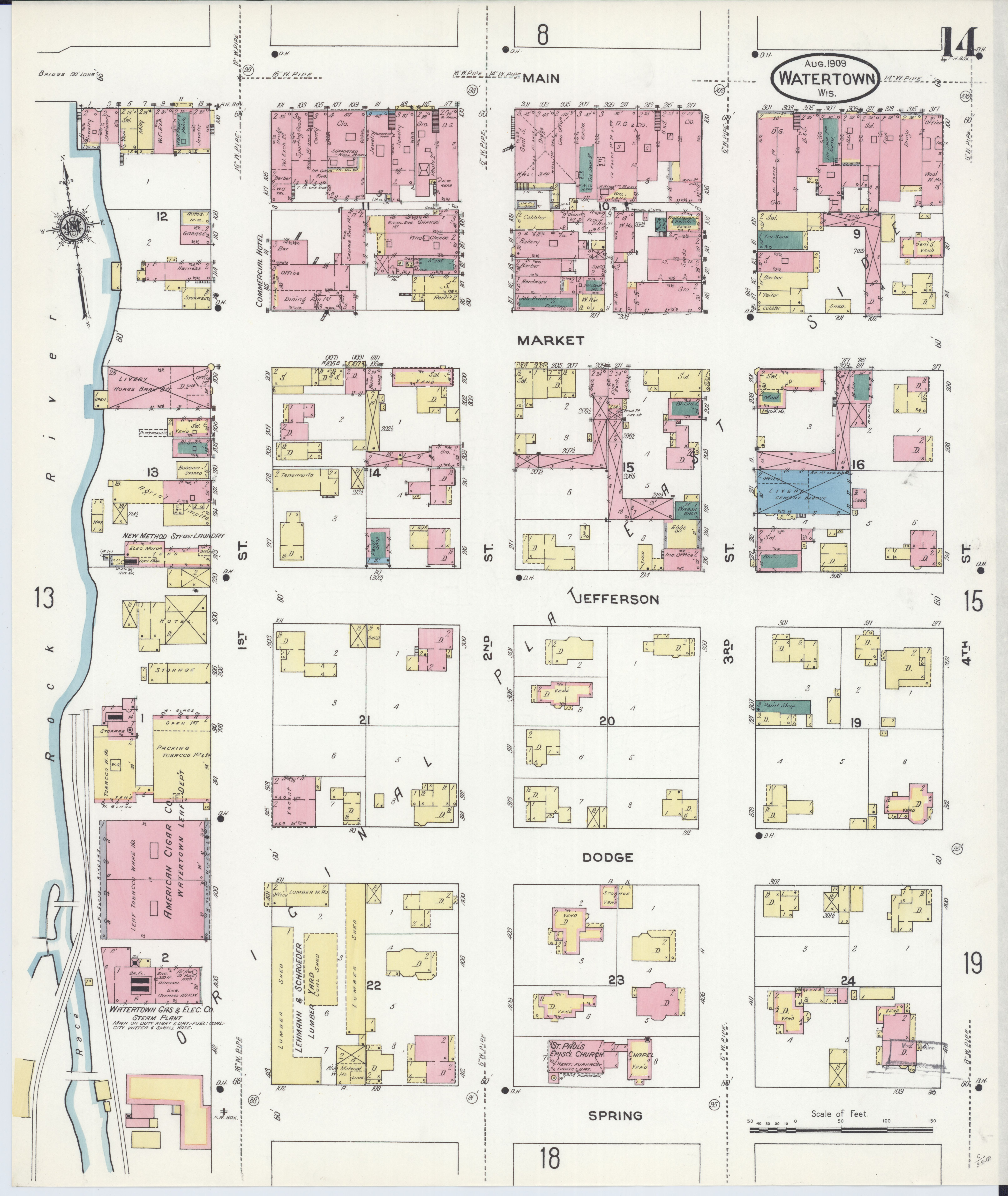 Aug 1909. 26 Sheet(s).